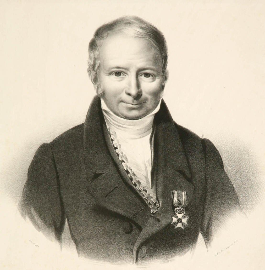 Portrait of Lodewijk Constantijn Rabo Copes van Cattenburch, Mayor of The Hague, the Netherlands, from 1824 to 1842.